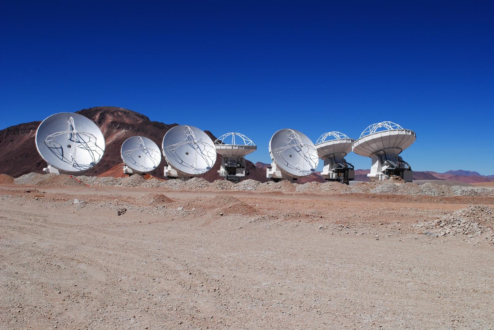 Seven ALMA antennas at the high site.